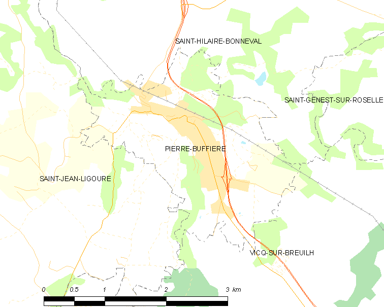 Map of French municipality Pierre-Buffière